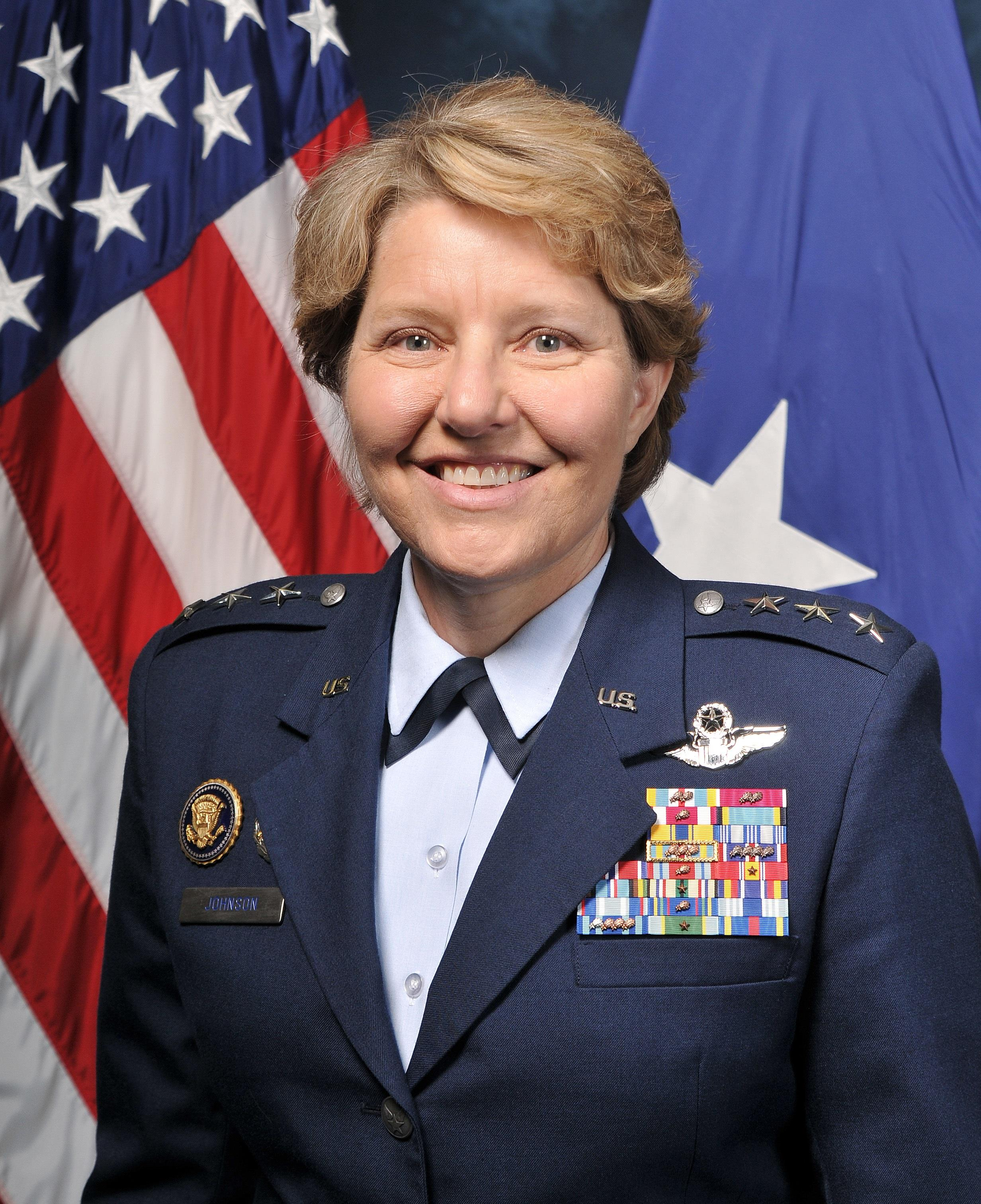 Lt. Gen. Michelle D. Johnson